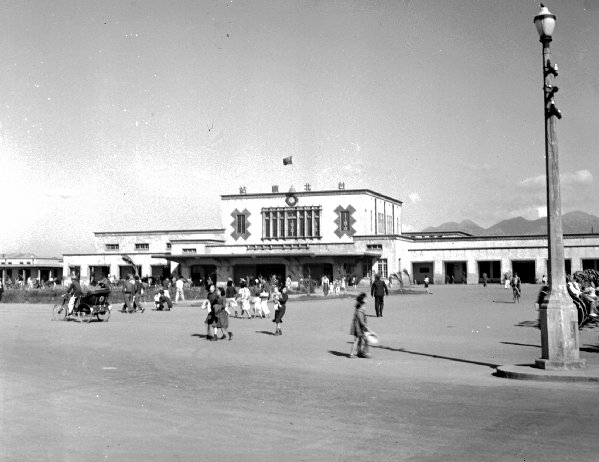 Taipeistation in 1948Bân-lâm-gú: 1948-nî ê Tâi-pak Tshia-tsām. 1948年的臺北車站。